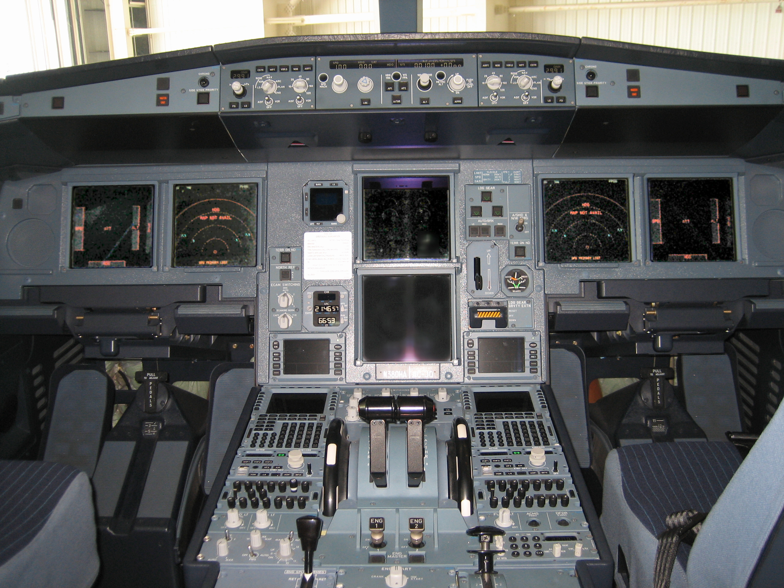 Hawaiian Air rolls out its new fleet of Airbus A330-200 planes.